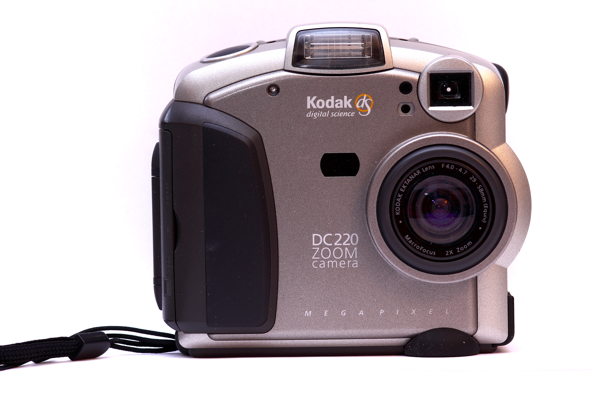 A digital compact camera from Kodak, model DC220, with supporting loop